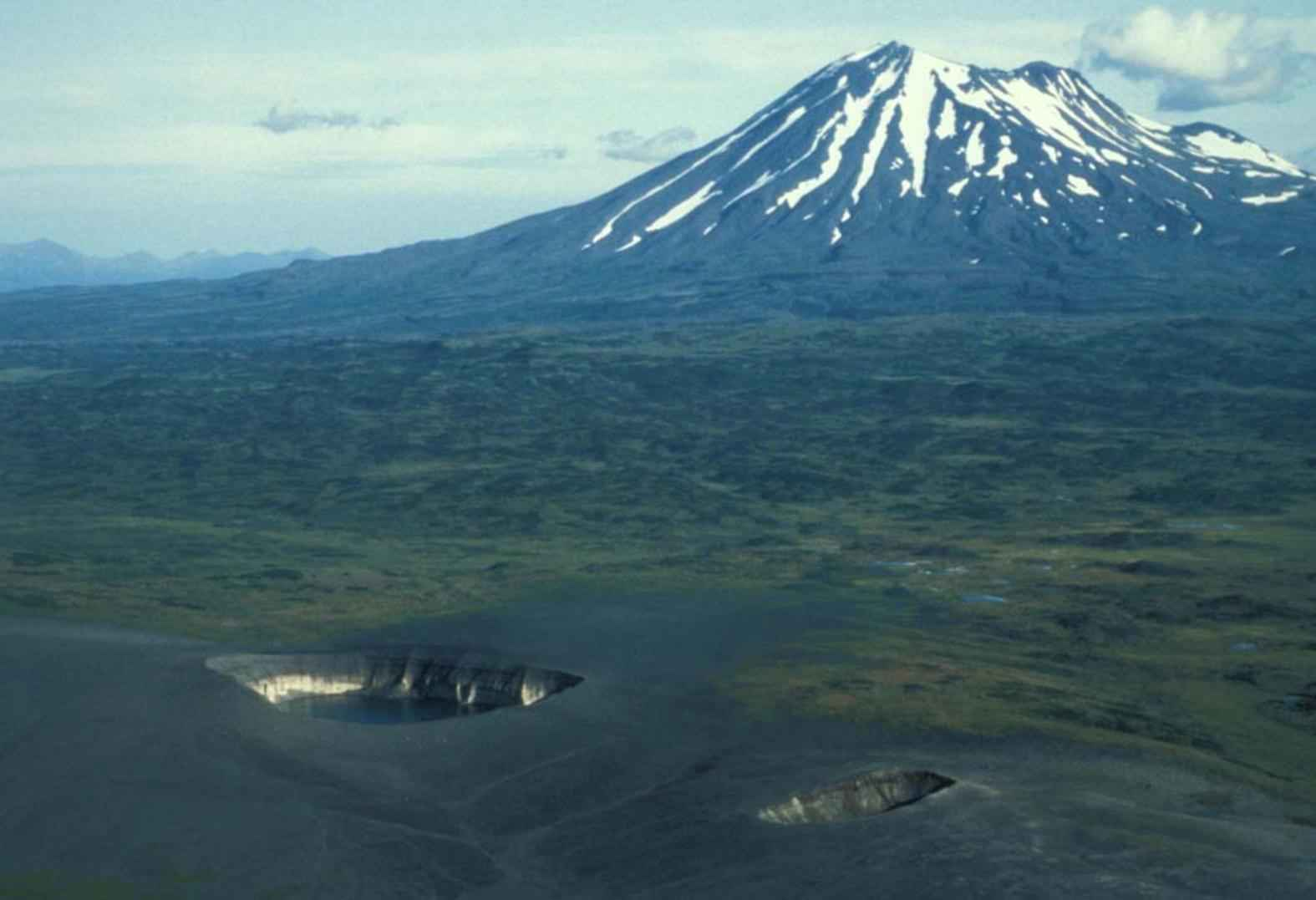 Image title: Aerial view of mountain Peulik ukinrek maars Image from Public domain images website